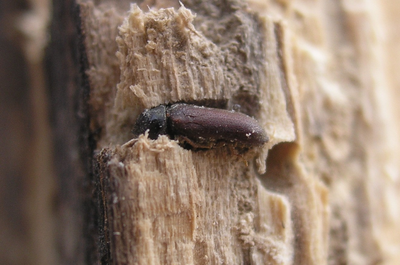 Common woodworm (anobium punctuatum) about to leave its hole. Diameter of the beetle is about 1.5 mm. Place: Hannover, Germany Date: 14.4.2006 Photgrapher: Kai-Martin Knaak